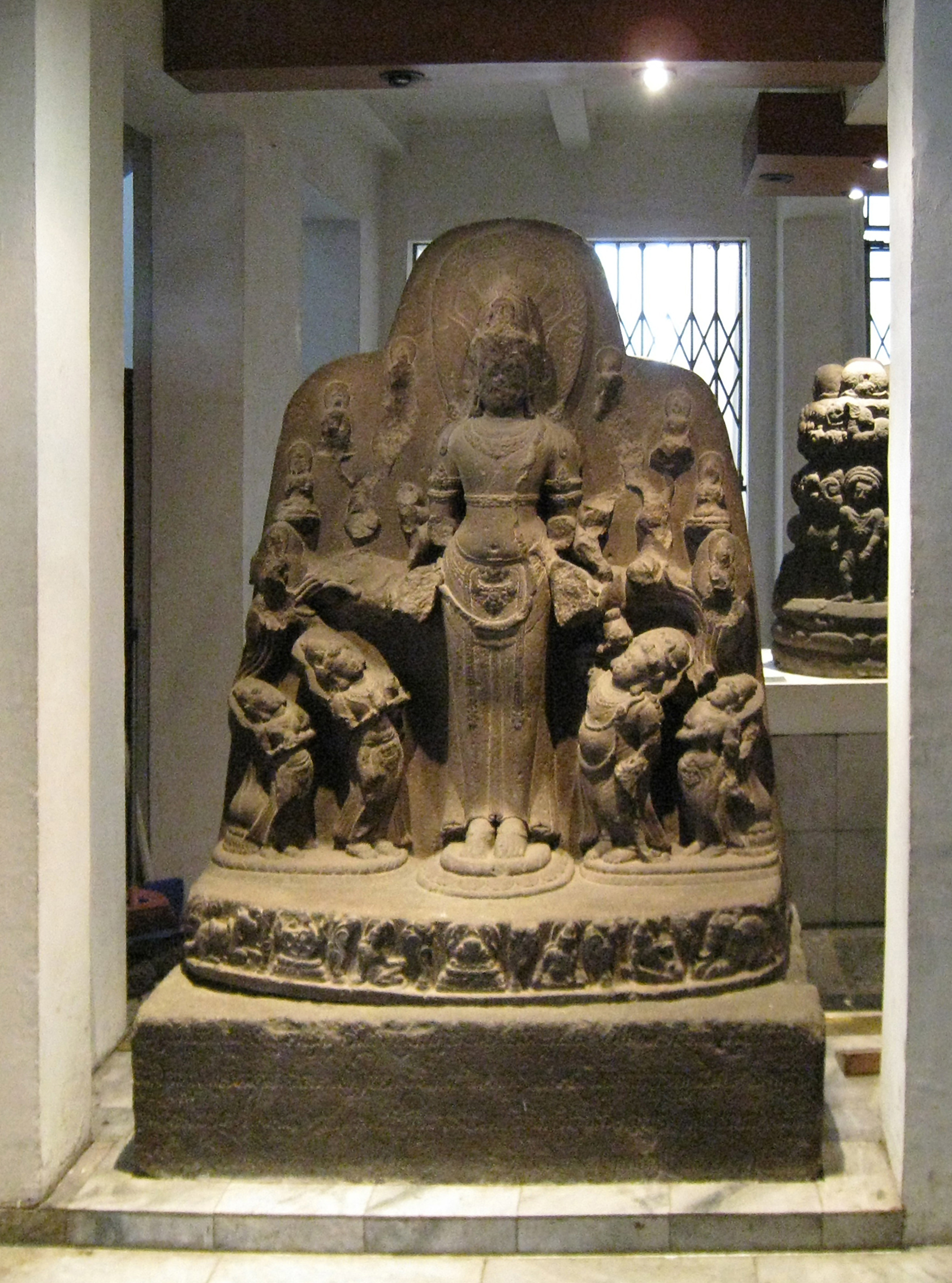 The front side of the Amoghapasa statue carved with inscription dated 1208 Saka (1286 CE), it was presented by King Kertanegara of Singhasari to Malayu Dharmasraya Kingdom in Sumatra. Discovered in Padang Roco.